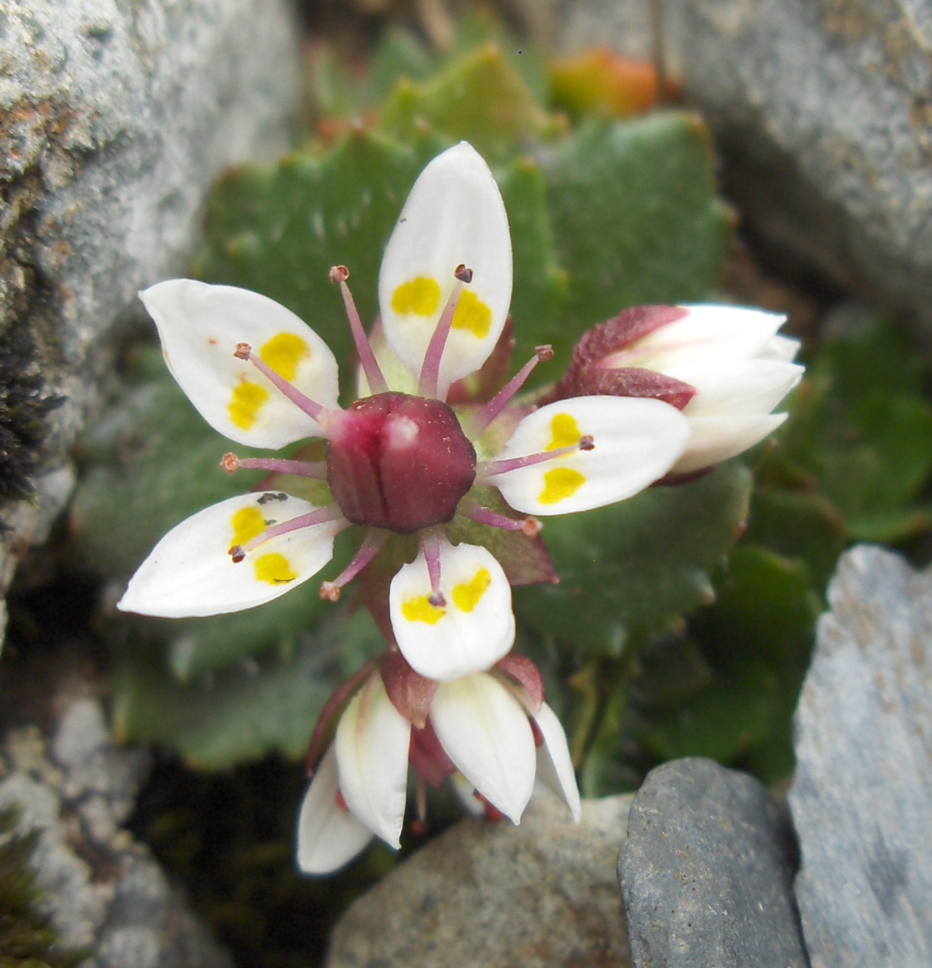 Saxifraga stellaris subsp. stellaris on Carnedd Llywelyn, Snowdonia, Wales: close-up of flower, looking down towards basal rosette.